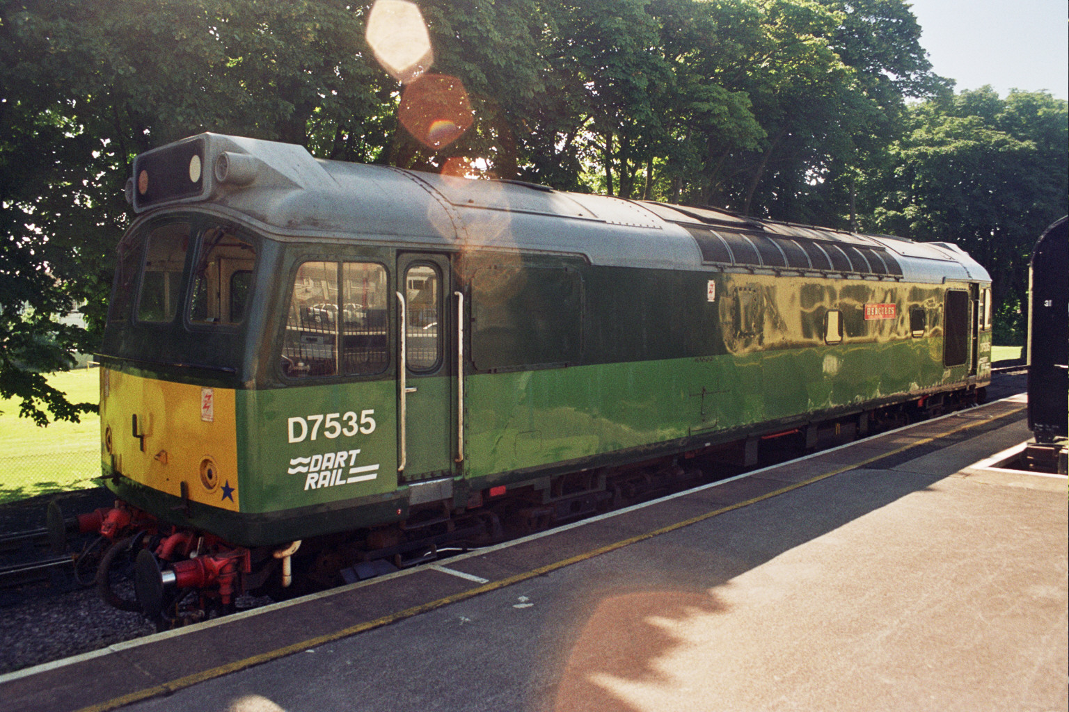 Diesel locomotive Paignton Devon England